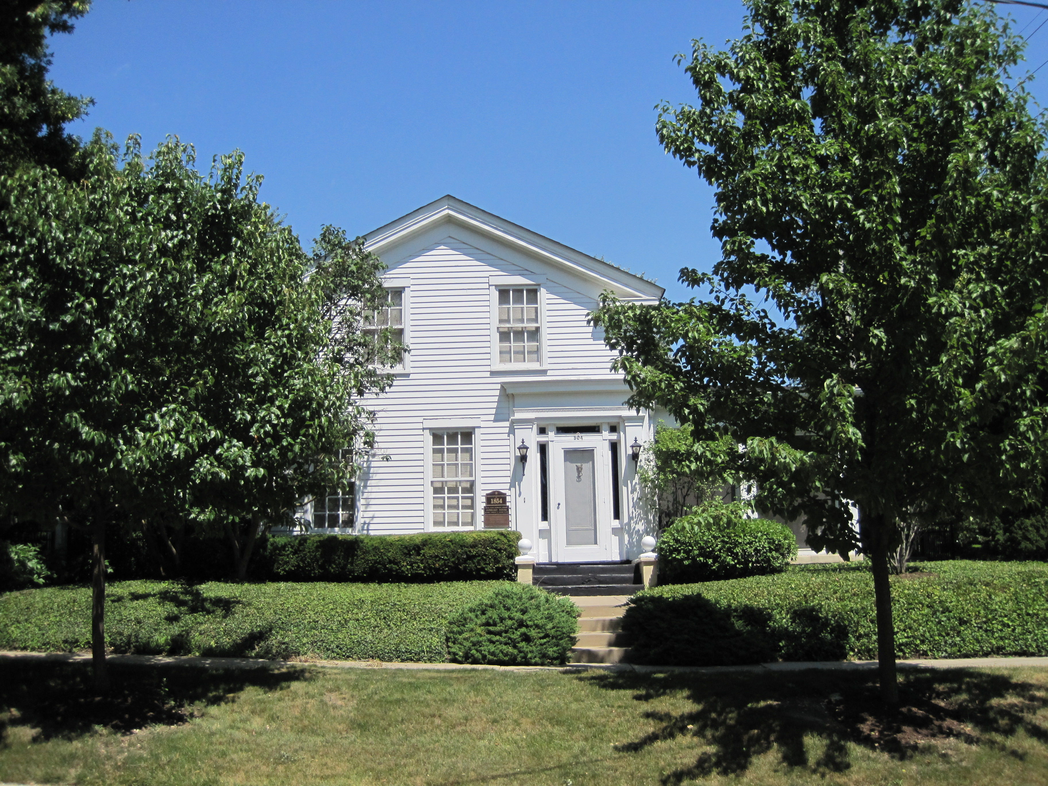 I (Teemu08 (talk)) took this image on July 12, 2011